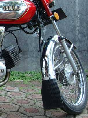 Yamaha l2 Super (1984) right side.